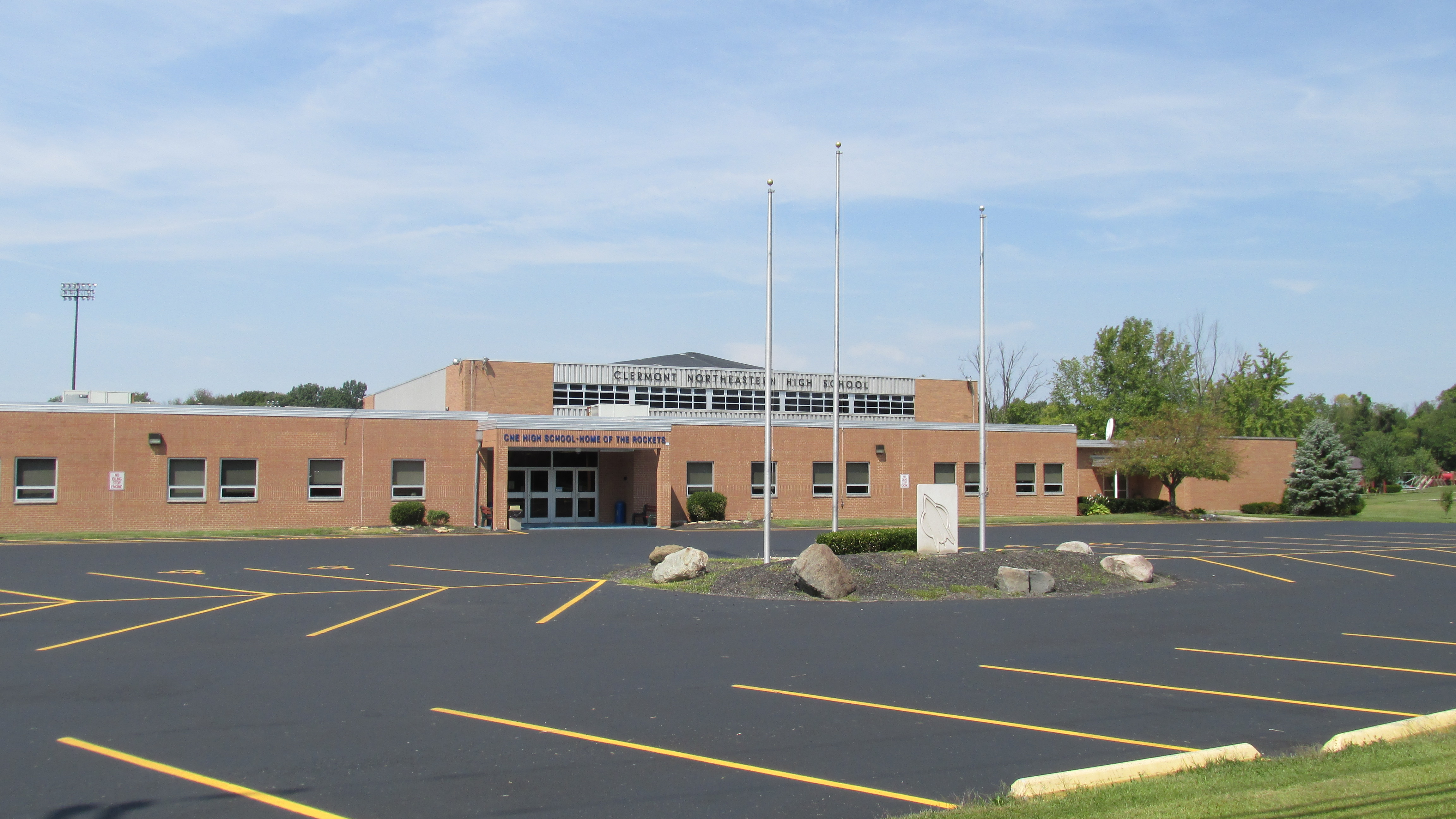 Clermont Northeastern High School outside of Owensville, Ohio.